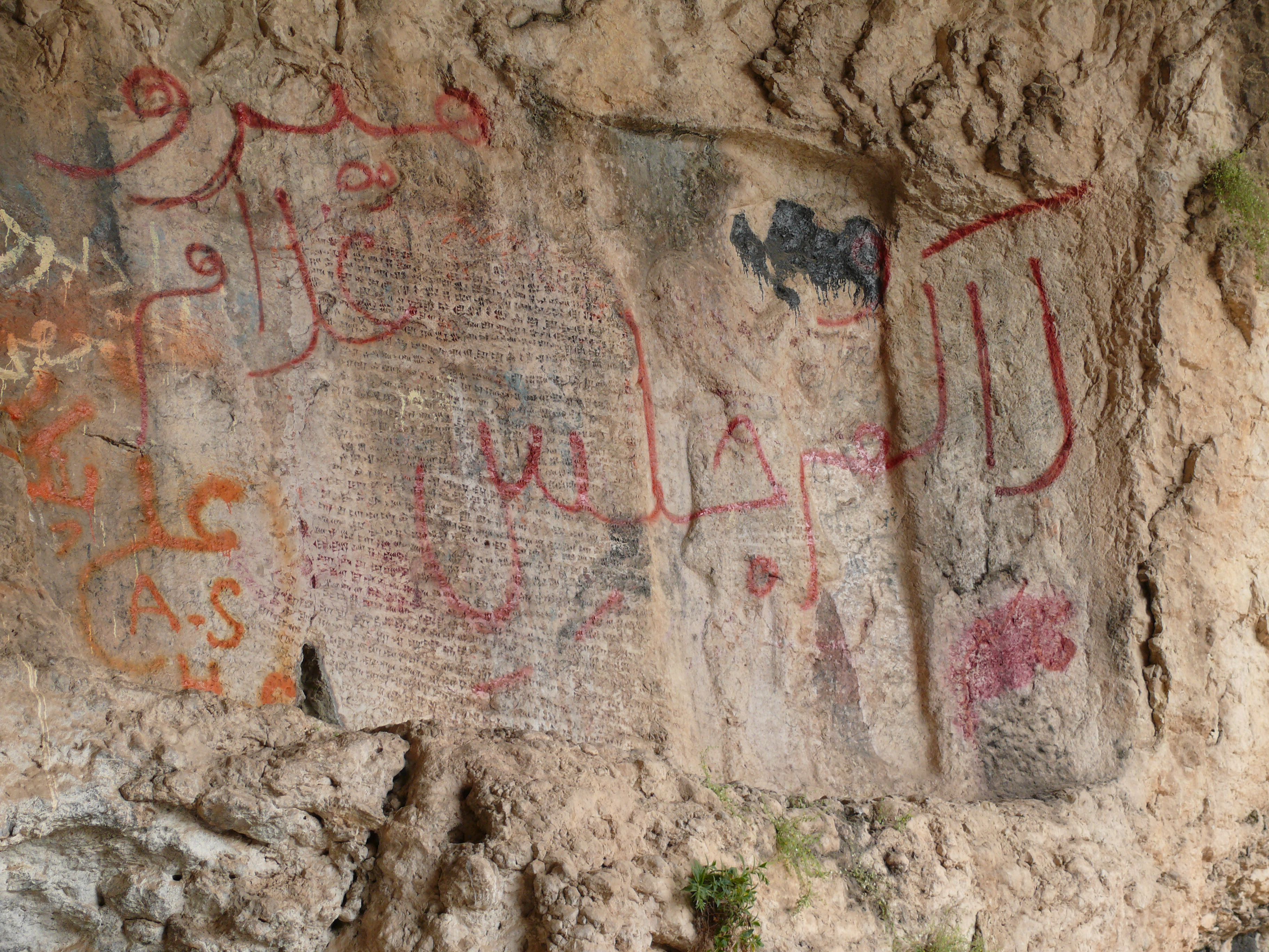 Elamite rock relief said Eshkaft-e Salman III depicting a religious office holded by King Hanni, with an elamite inscription. the relief has been vandalized with red paint in 2007. Eshkaft-e Salman (Salomon’s cave), city of Izeh, Khouzestan province, Iran